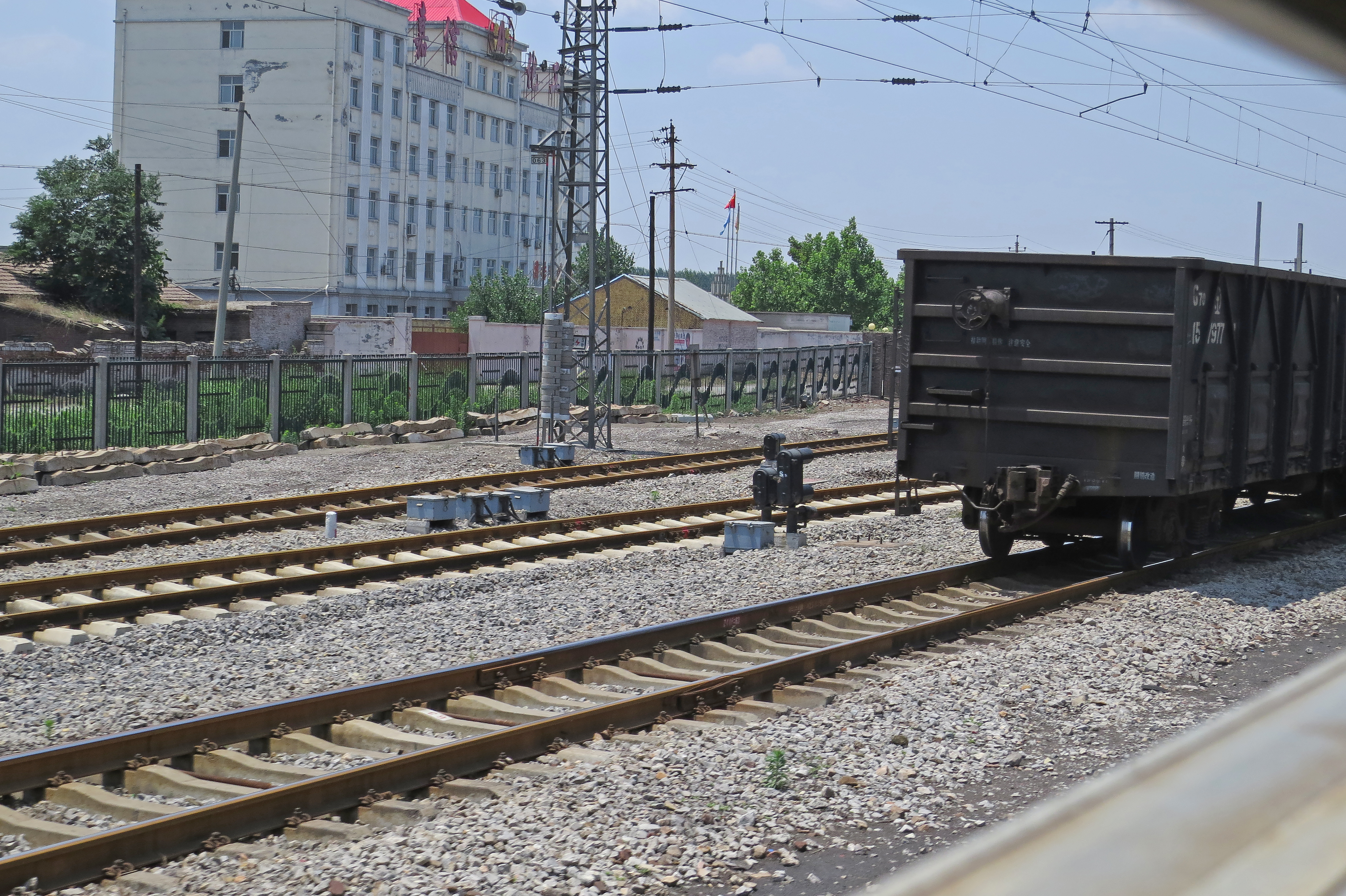 Taken from 4481.